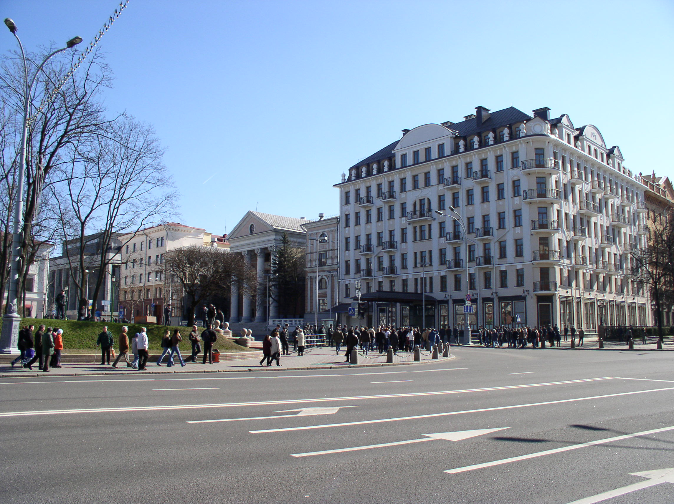 Militia, March 25, 2007. Minsk, Belarus.